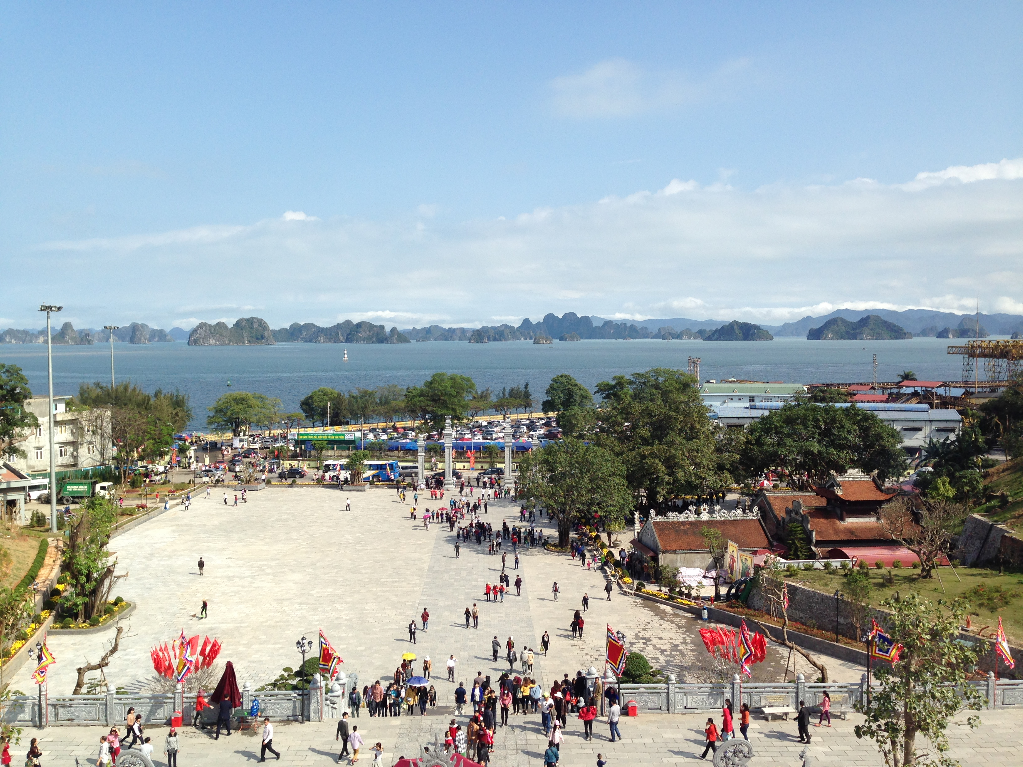 Bai Tu Long Bay with hundreds of limestone islands and rocks on the sea. View from Cửa Ông Temple